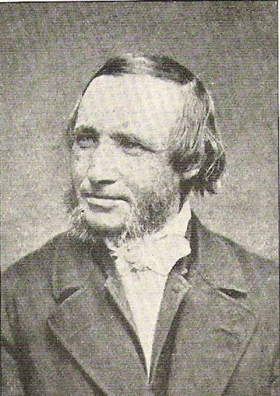 Danish writer C.A. Thyregod (1822-1898)